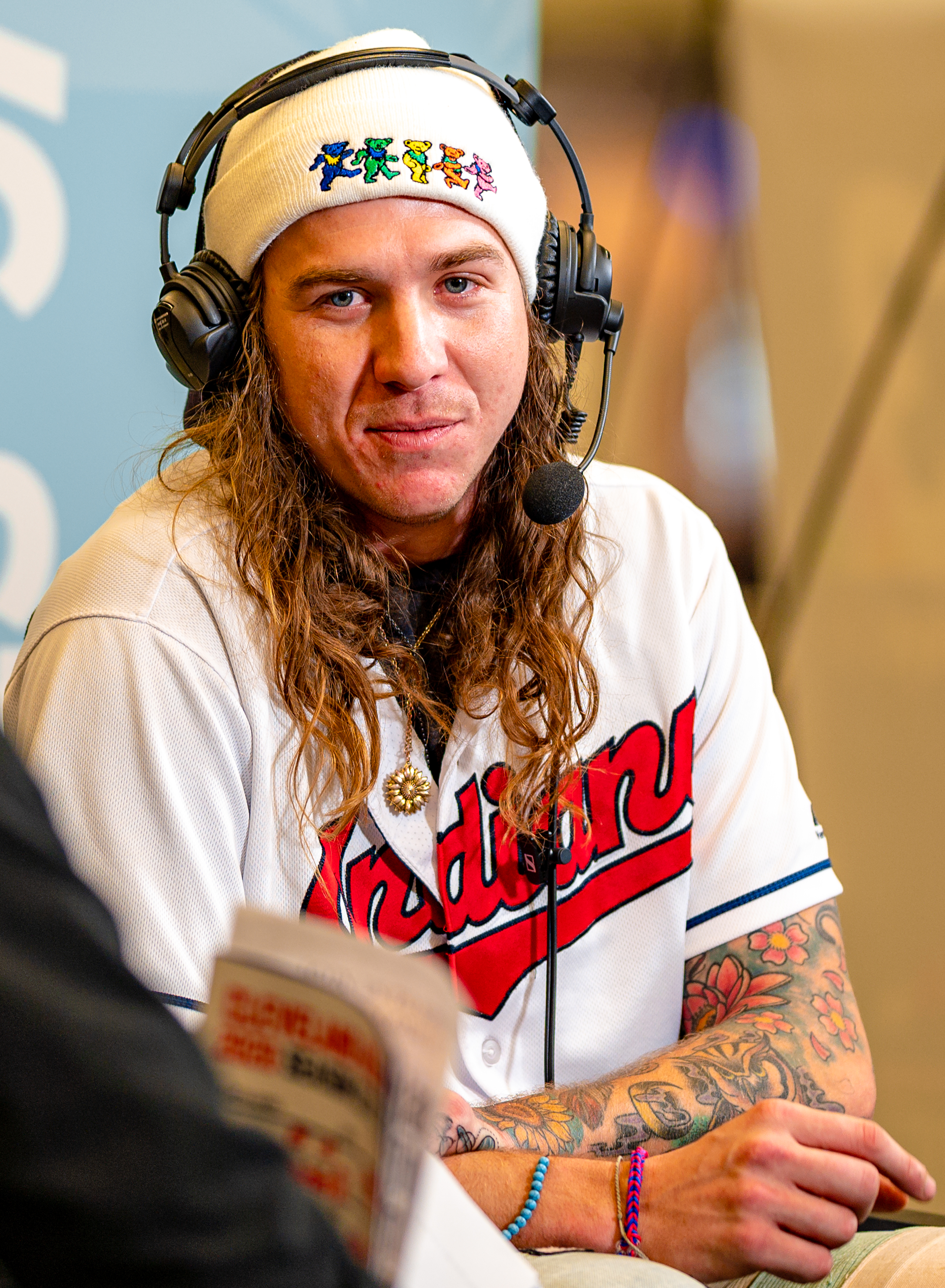 Mike Clevinger gives an interview at Cleveland Indians Tribe Fest at Huntington Convention Center of Cleveland in February 2020.